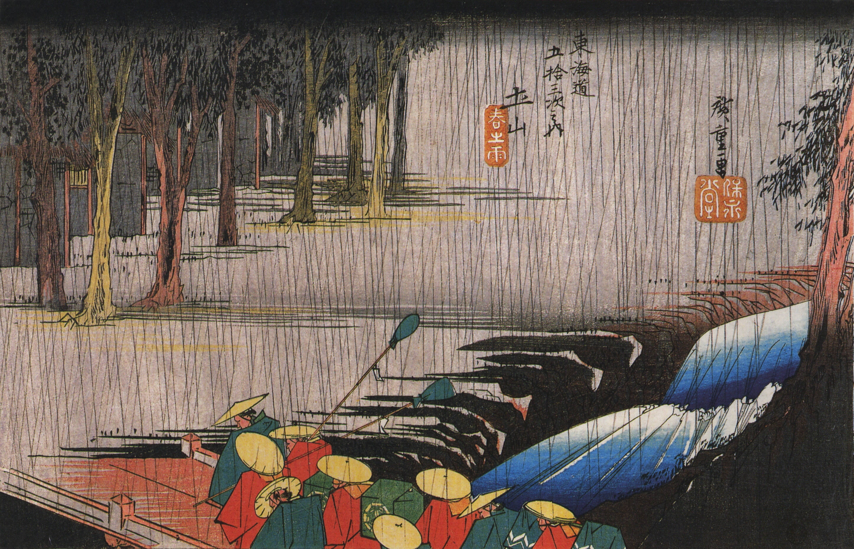 Hiroshige, Daimyo procession crossing a bridge